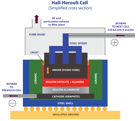 Author: user: kashkhan hall-heroult cell aluminium industrial electrolysis process for primary production diagram